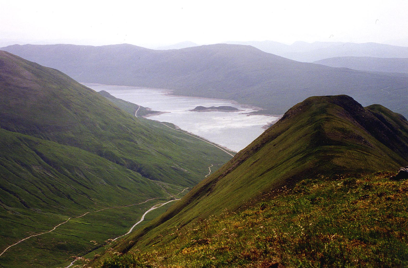 Personal picture taken by Mick Knapton